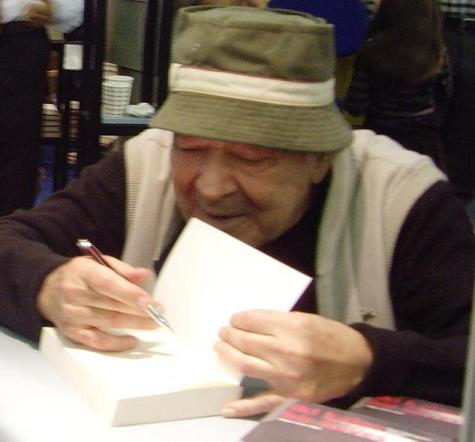 Turkish stage and cinema actor Erol Günaydın signing a biography at İstanbul Book Fair (2007)